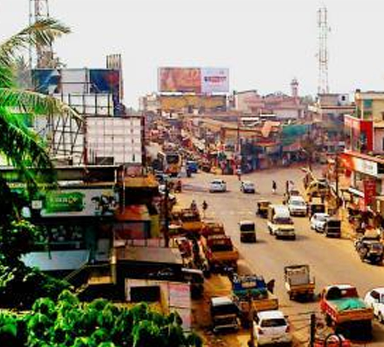 Puthanthani city